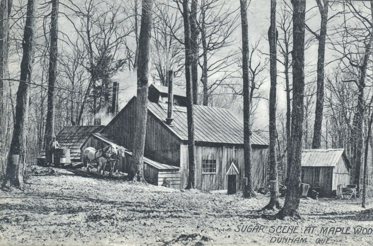 Postcard of sugar scene at Maple Wood, Dunham, Quebec, Canada.